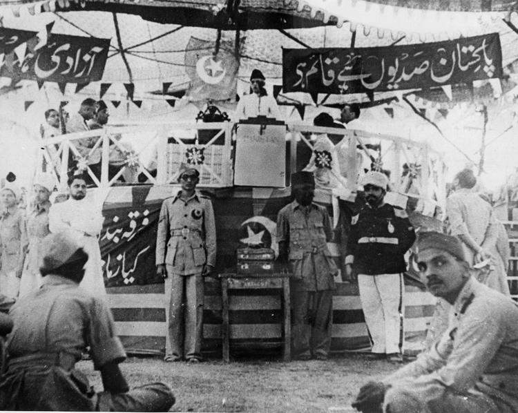 Jinnah addresses the delegates to the Moslem Political Convention held in New Delhi during 1943. From BL Photo 429/(8), held and digitised by the British Library.